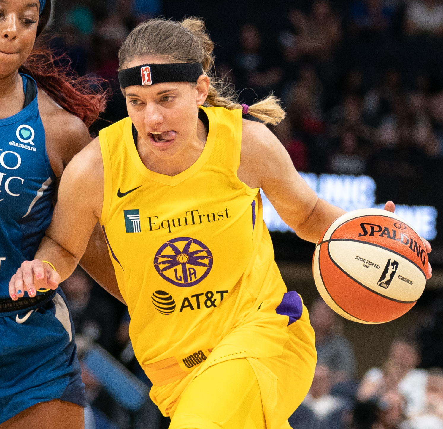 Los Angeles player Sydney Wiese in a game against the Minnesota Lyxn